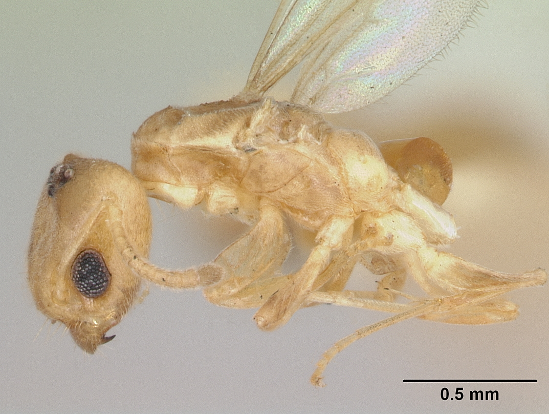 Profile view of ant Tapinoma emeryi specimen casent0103347.